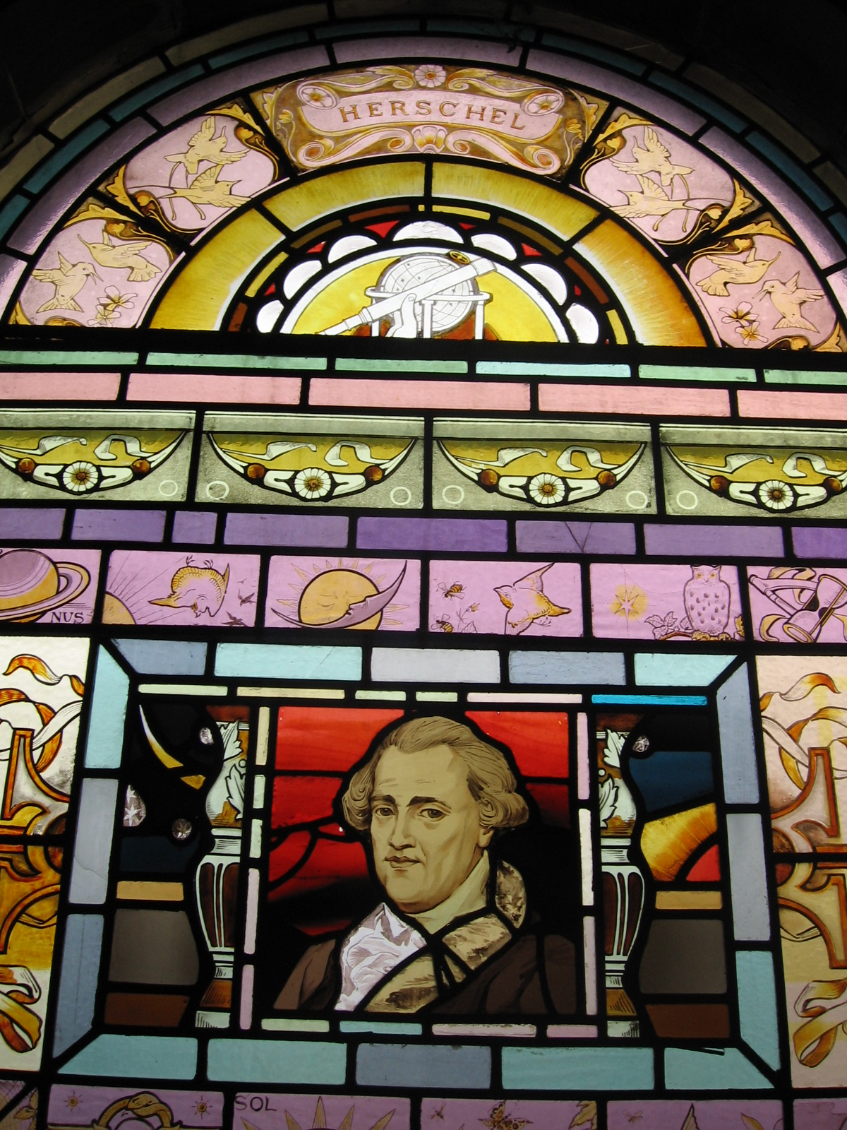 This file was uploaded as part of a GLAMWiki partnership with Paisley Museum. You can find out more on the Museums Galleries Scotland project page. This tag does not indicate the copyright status of the attached work. A normal copyright tag is still required. See Commons:Licensing for more information.